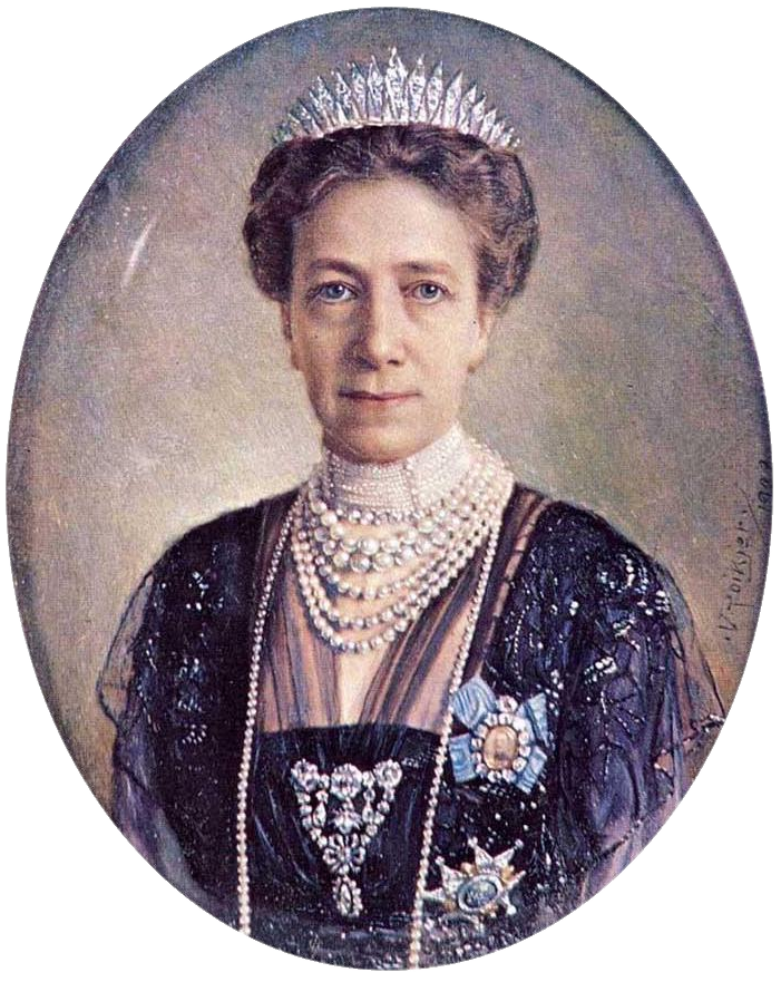 Queen Viktoria of Sweden (1862-1930)